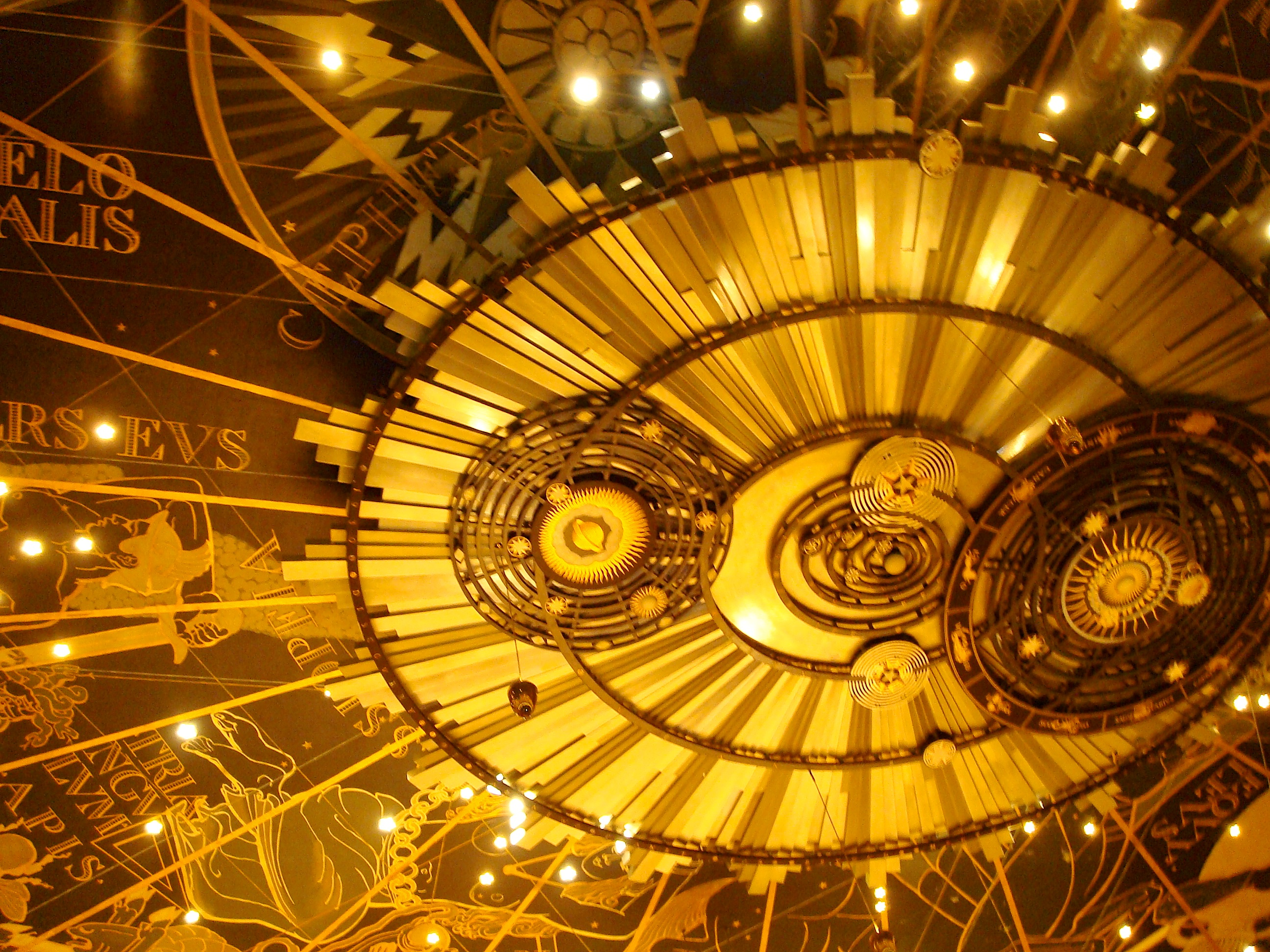 Ceiling art inside the Forum Auditorium of the Pennsylvania State Library in Harrisburg, Pennsylvania.